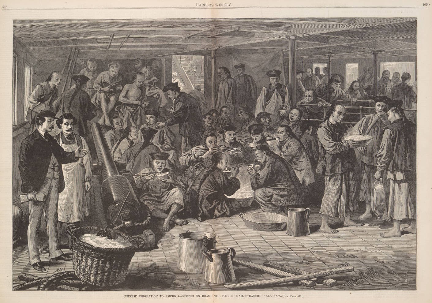 Views captioned: Searching Chinese immigrants for opium, at San Francisco... -- The anti-Chinese riot at Seattle, Washington Territory ... -- A haunt of the highbinders in Chinatown (including portraits and "Highbinder's favorite weapons", San Francisco) -- Chinese life in San Francisco (including "Interior of a theatre" and "Cleaning the bones of the dead") -- A Chinese reception in San Francisco -- Completion of the Pacific Railroad ... The great link connecting Europe with Asia across the American continent -- Chinese emigration to America, sketch on board the steamship Alaska bound for San Francisco.